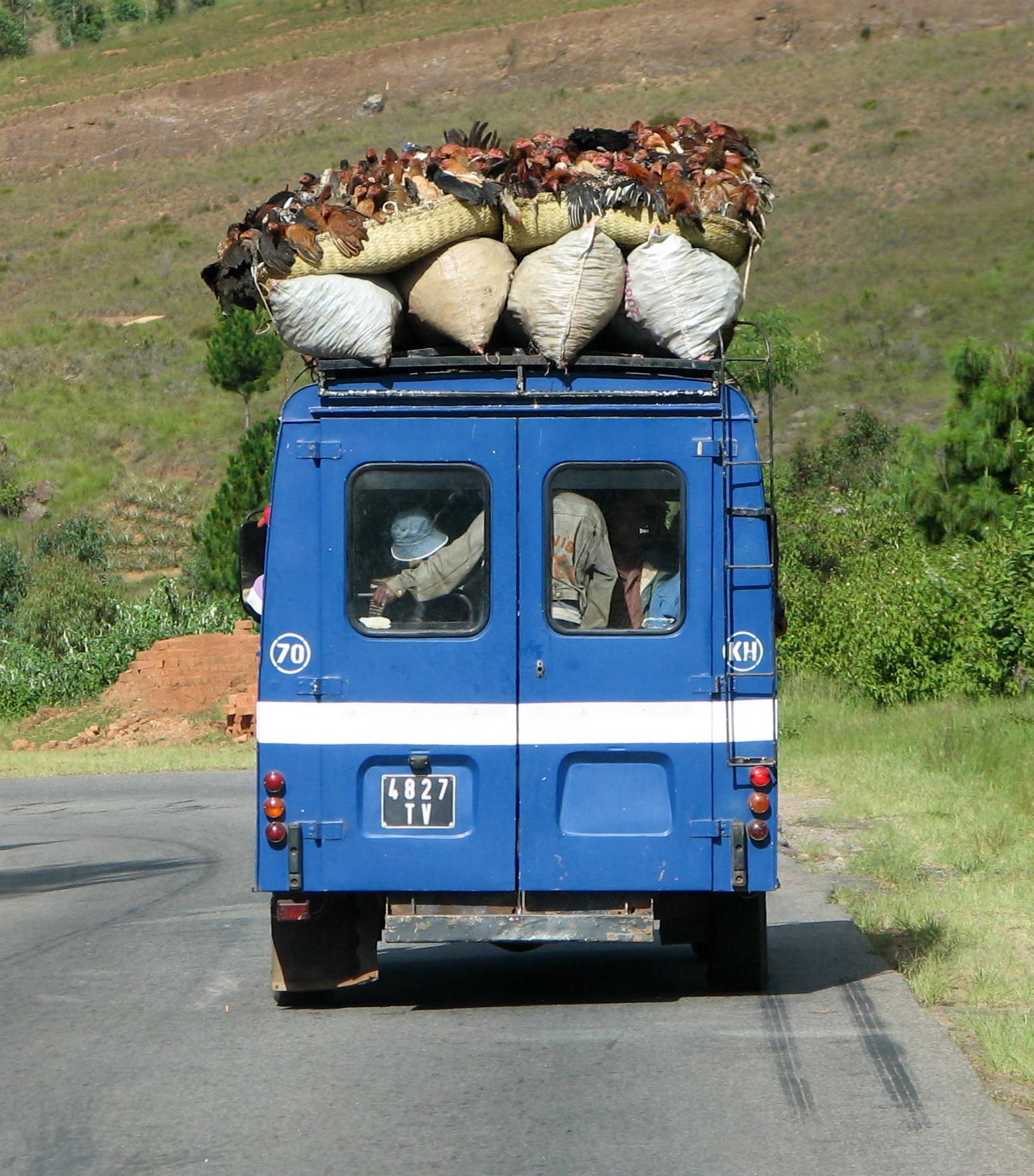 Public transport with passengers and chickens near Ambatolampy, Madagascar